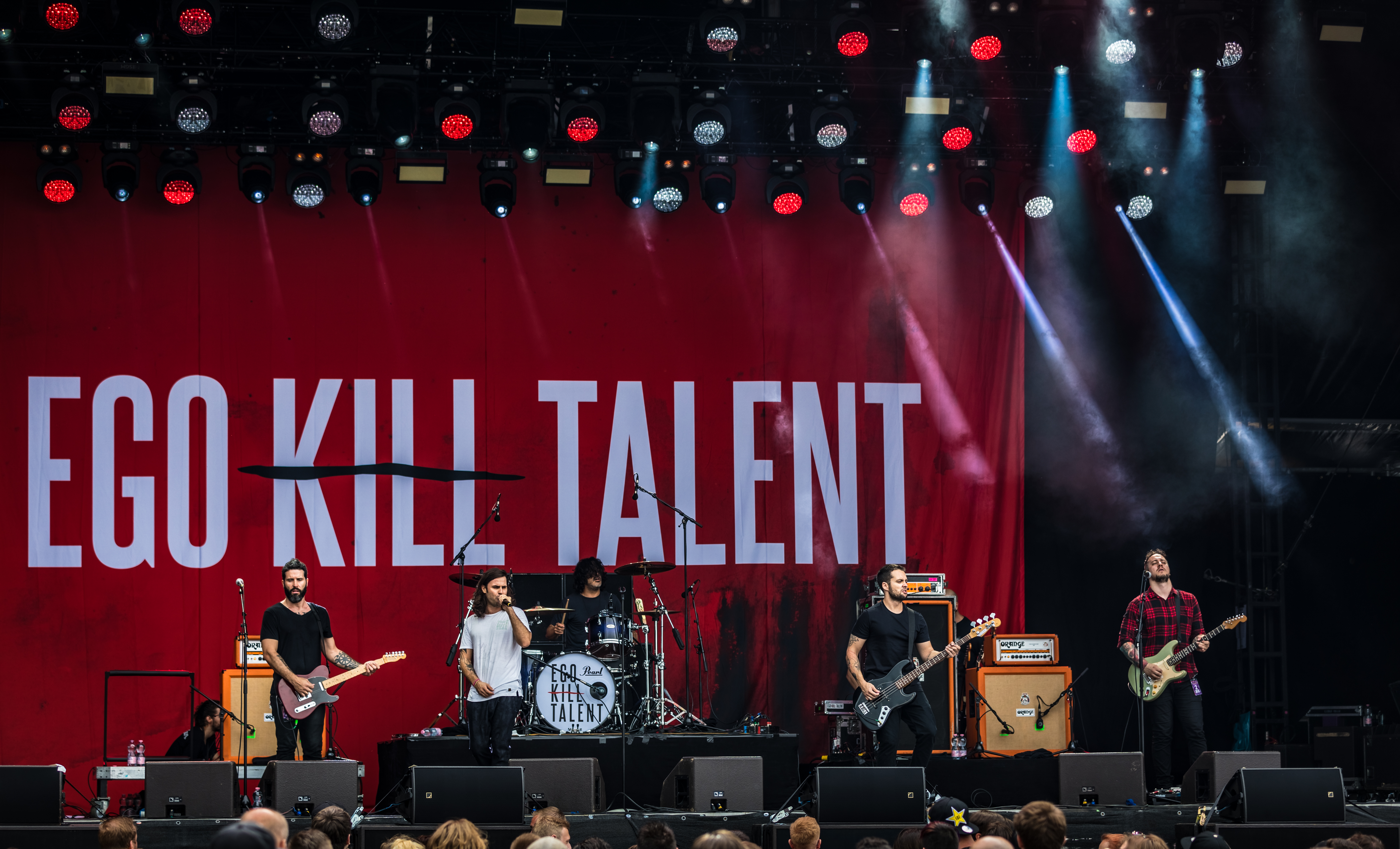 Ego Kill Talent - Rock am Ring 2018